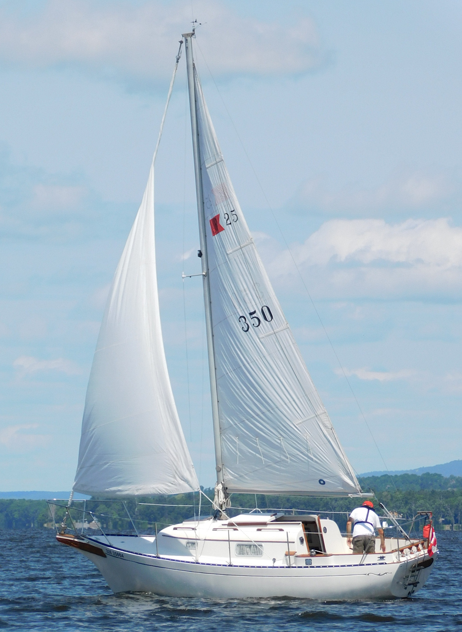 A Bayfield 25 sailboat .